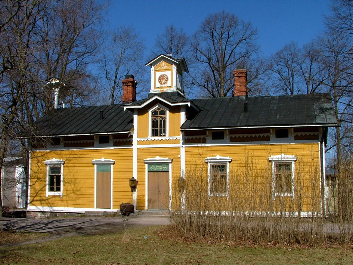 Puotila Manor's ancillary building, dating from the 1800s. Today the building houses Club Svenkka [2], reportedly "Finland's oldest discotheque".